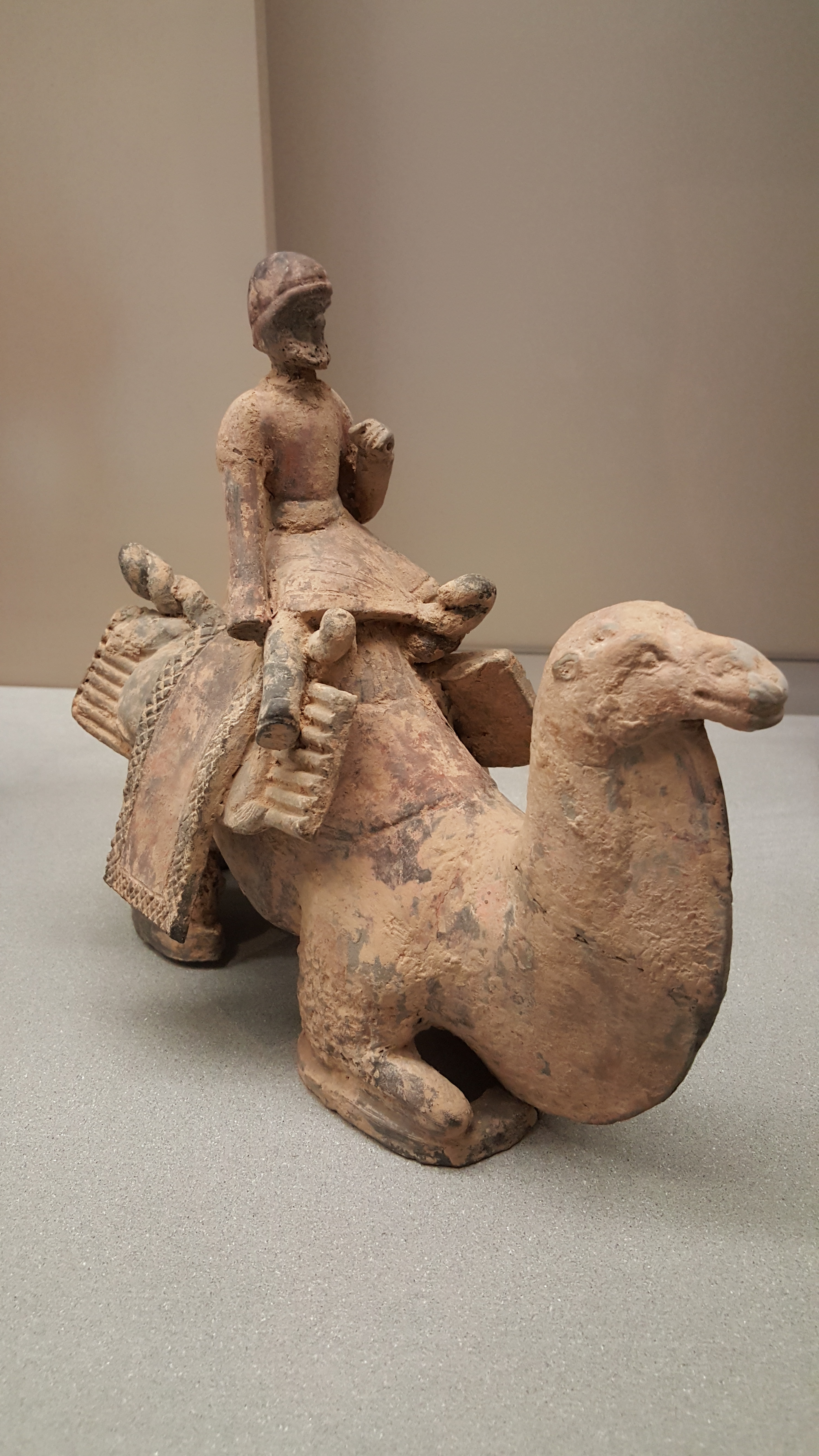 Sculpture of a camel driver dated to the Northern Wei dynasty of Chinese history. Part of the permanent collection of the Musée Cernuschi, Paris, France. Collected 1930.